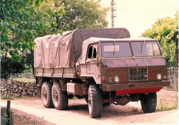 The transporter used by the soldiers of the Croatian Army in the Miljevci plateau incident.